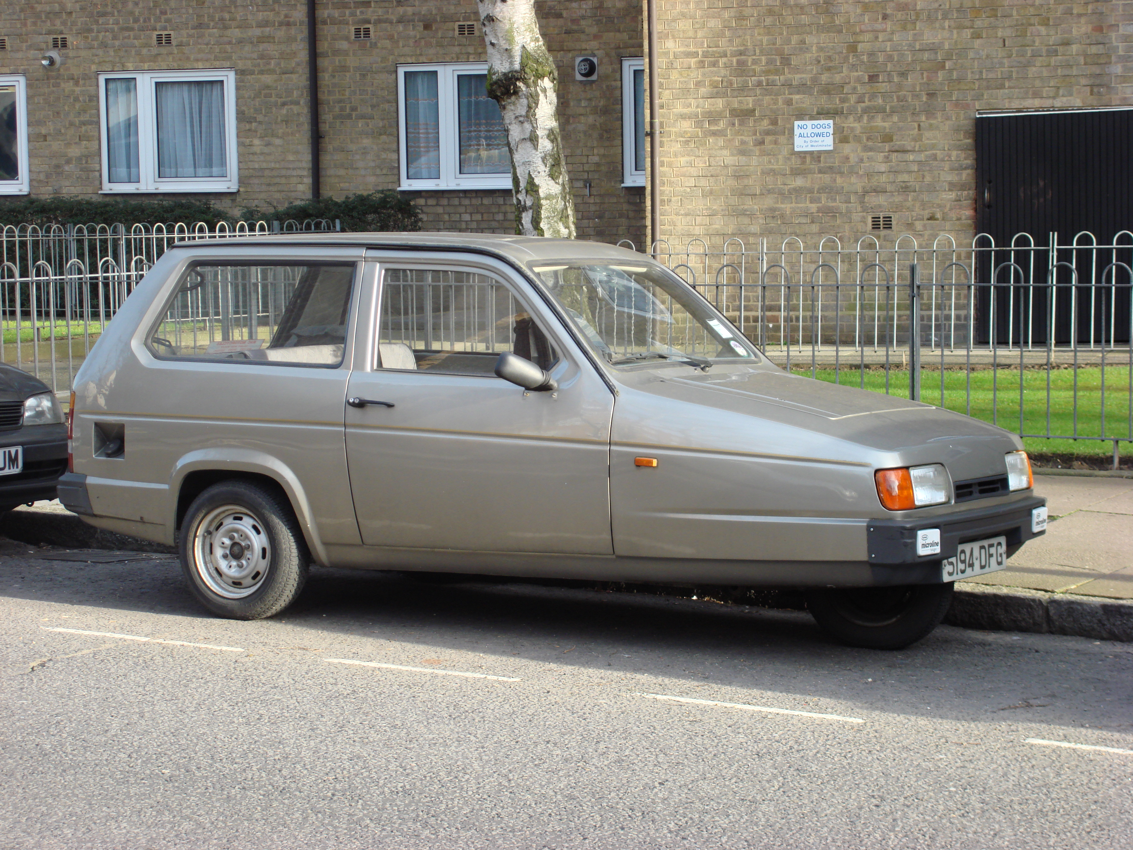 A gold 1998 Reliant Robin in Boundary Road, London NW8 near St John's wood